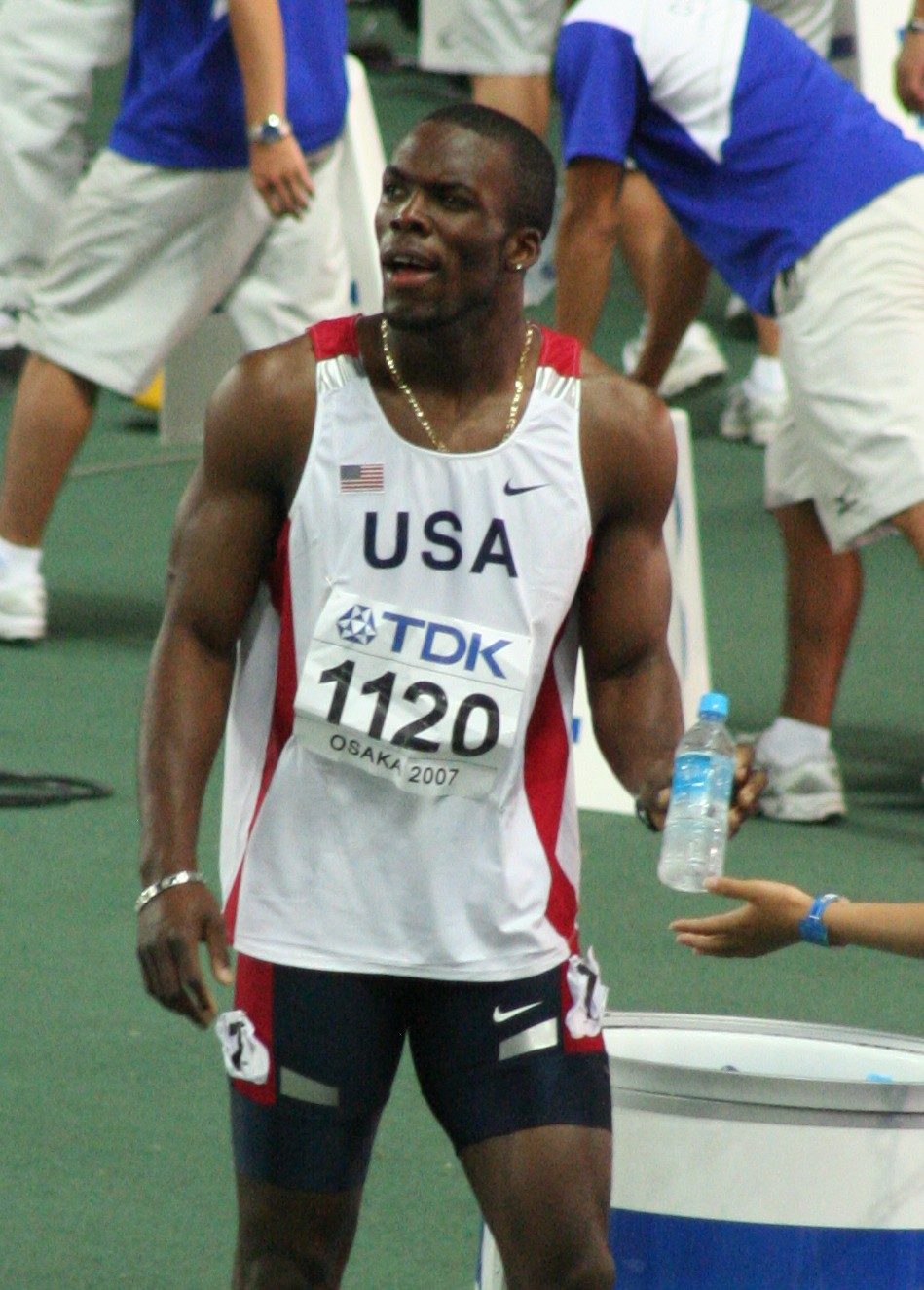 World Athletics Championships 2007 in Osaka - US 400 metres runner LaShawn Merritt